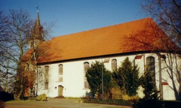 The Evangelical Lutheran St. Margaret Church in Stotel (a locality of Loxstedt), Lower Saxony, Germany.